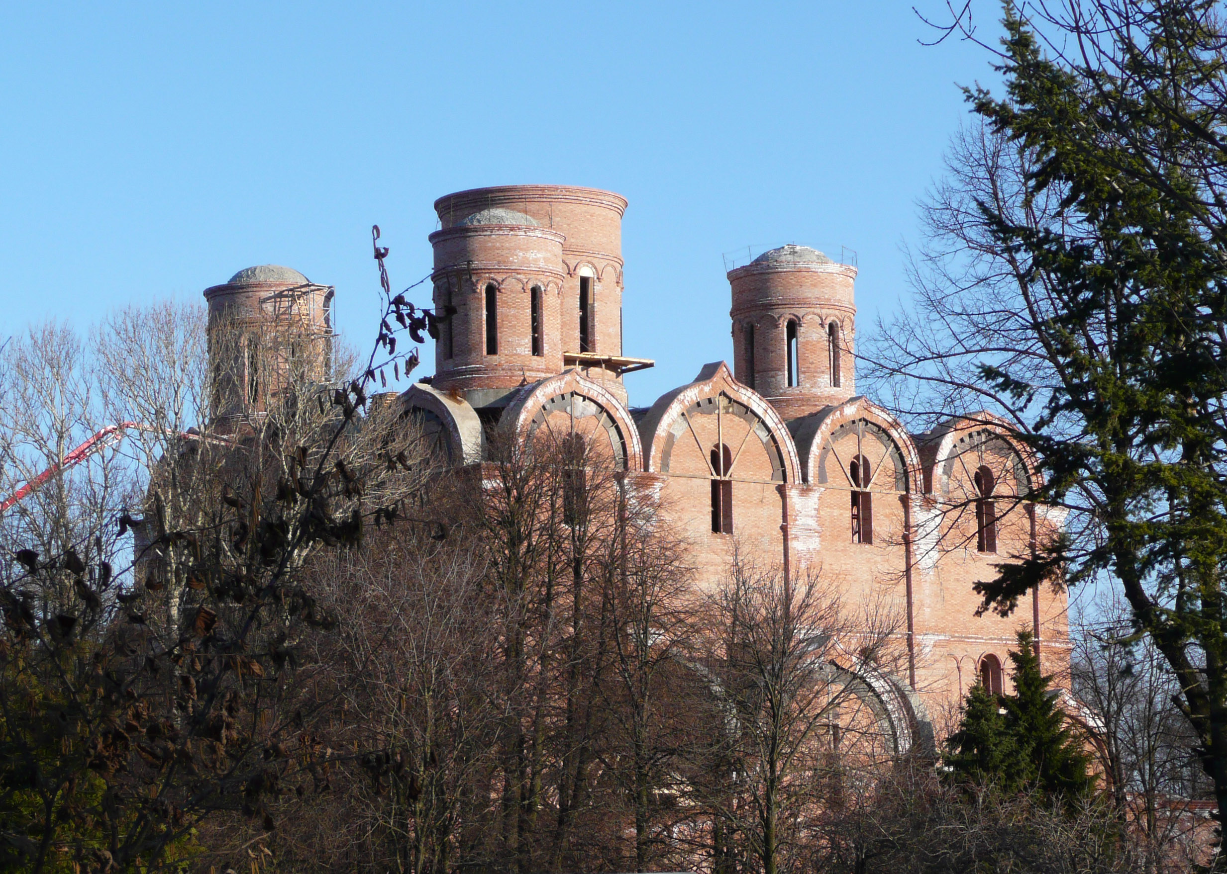 The Assumption Cathedral in Yaroslavl under construction.